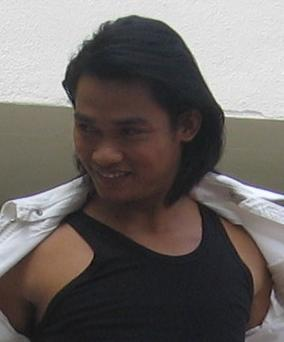 Tony Jaa, Martial Arts demonstration @ The Museum of the Moving Image, Astoria, Queens, NYC 8/20/06